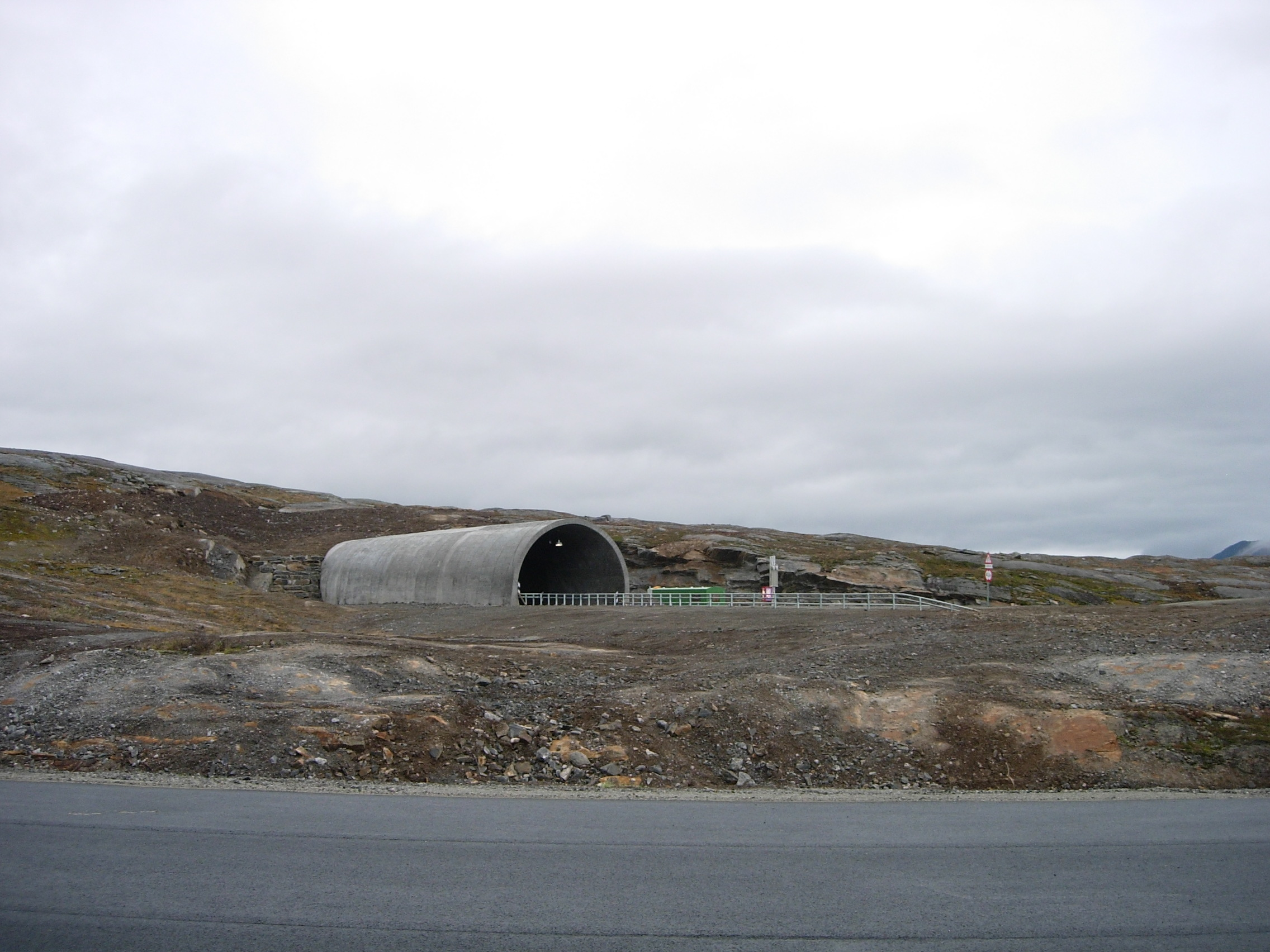 Reinhornheia tunnel på Riksvei 813 in Beiarn, Norway (westside)